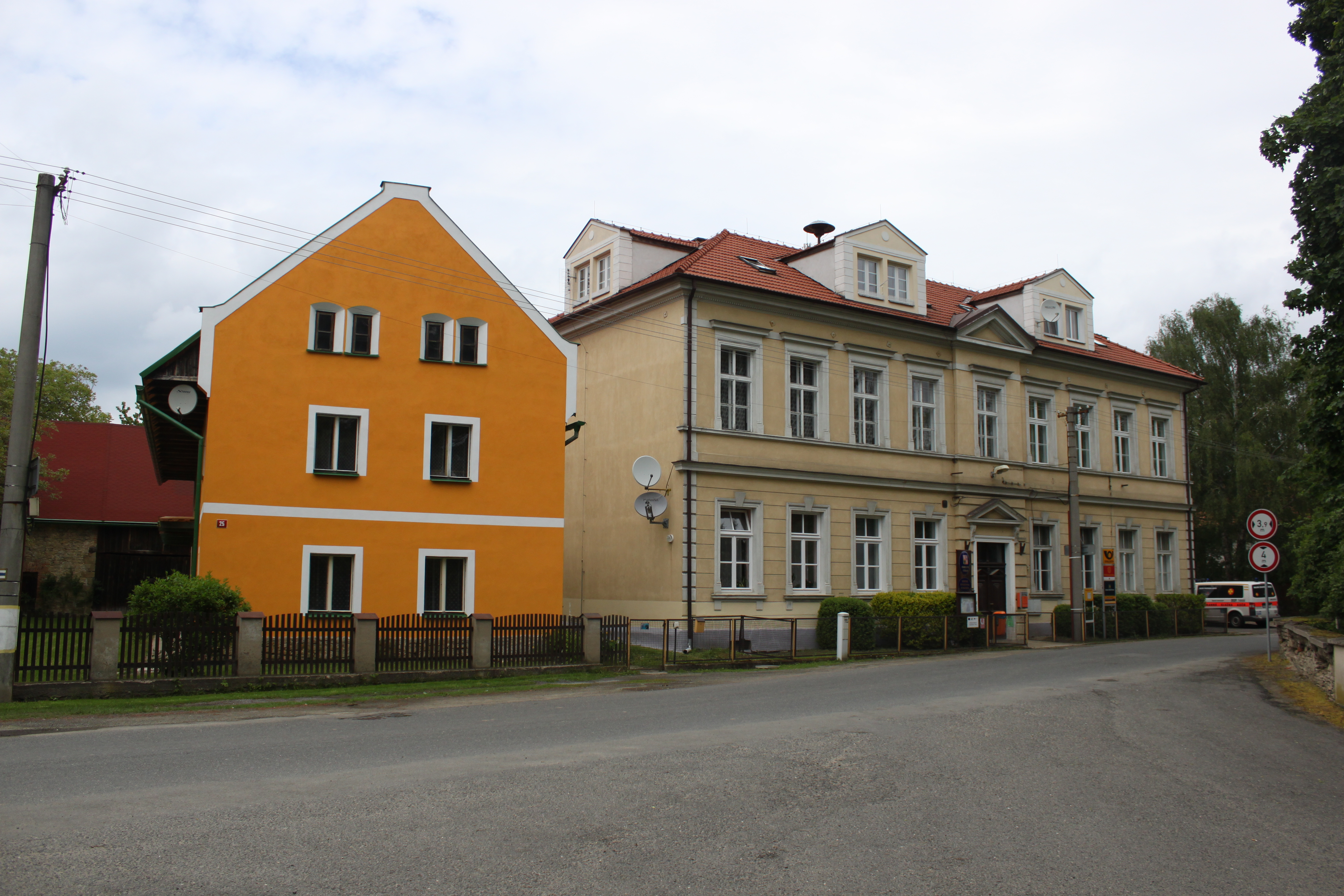 Village Kokořín, in Mělník District, Czec Republic Domy na návsi; obecní úřad